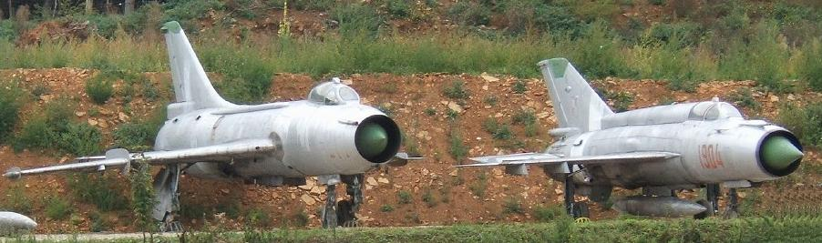 Side by side Sukhoi Su-7 (left) and MIG-21 (right)